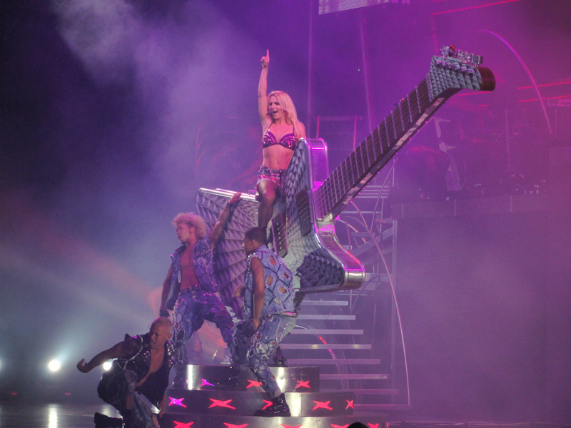 Spears